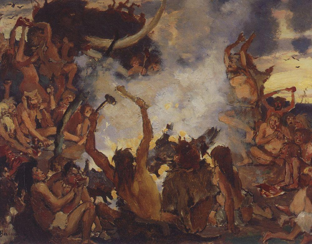 Stone Age: the feast. Detail 2